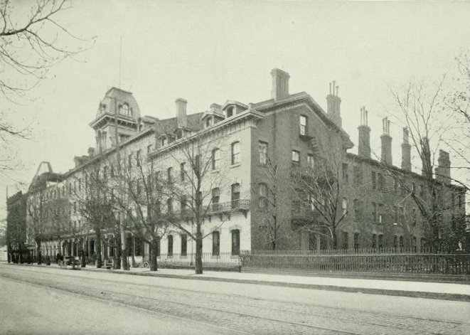 View of the former Queen's Hotel, demolished to make way for the Royal York hotel.